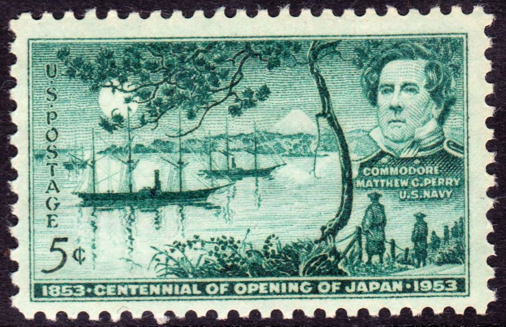 US Postage Stamp, 5-cent, 1953 Opening of Japan Centennial issue, Commodore Perry Perry